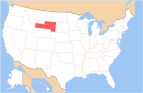 Outlines the state borders of the proposed State of Absaroka